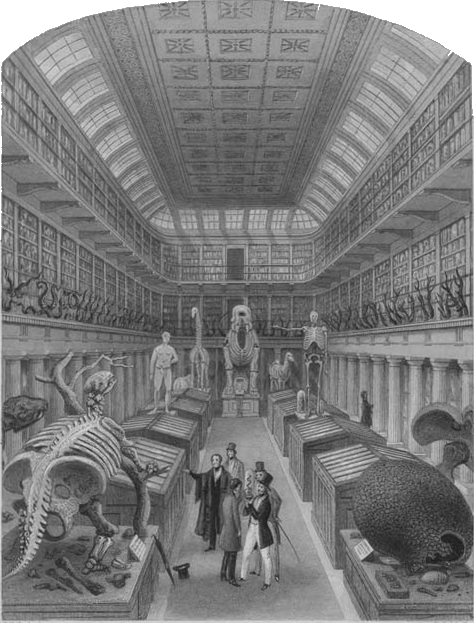 Hunterian Museum London